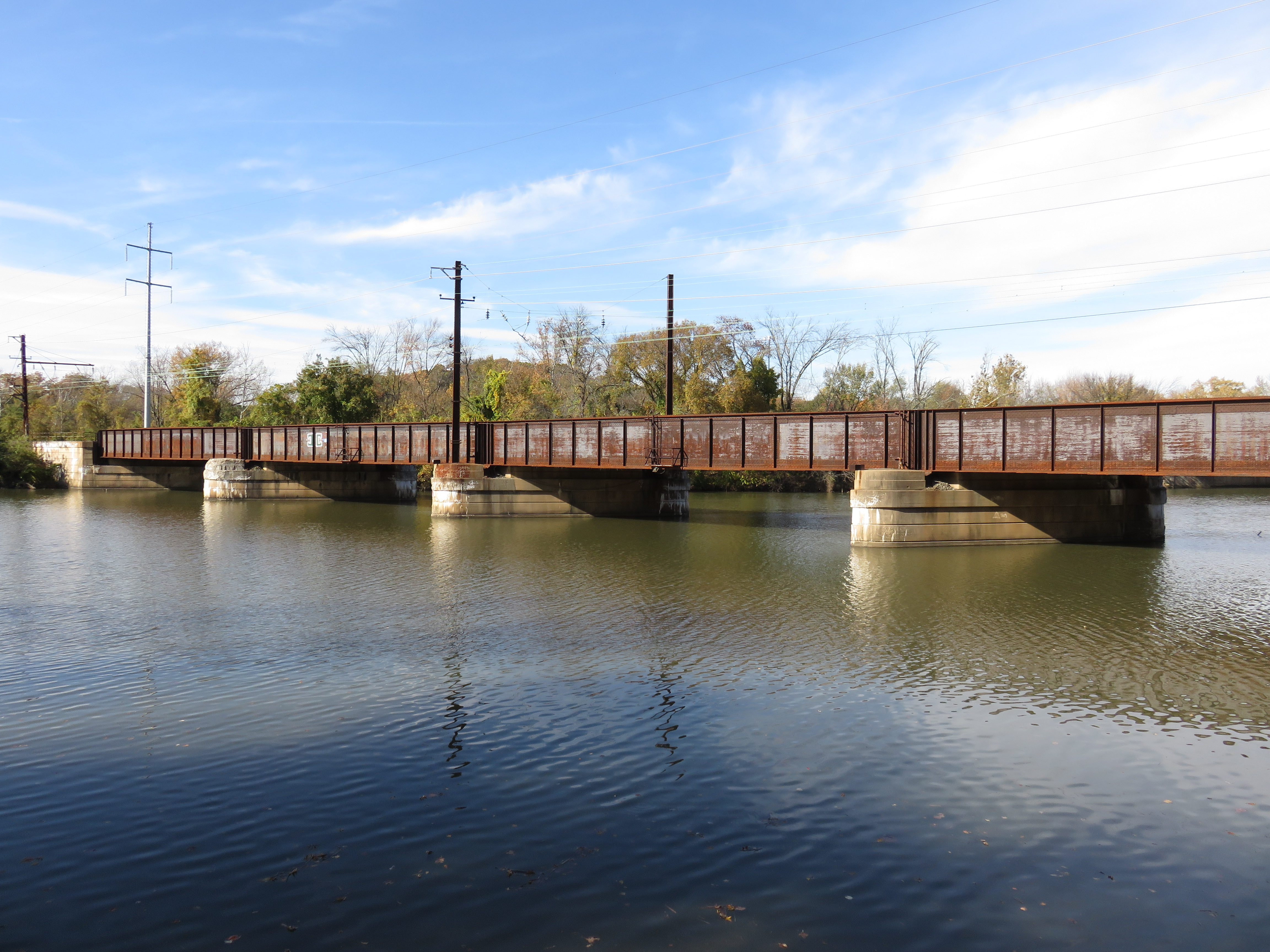 Amtrak Railroad Anacostia Bridge over the Anacostia River in 2016